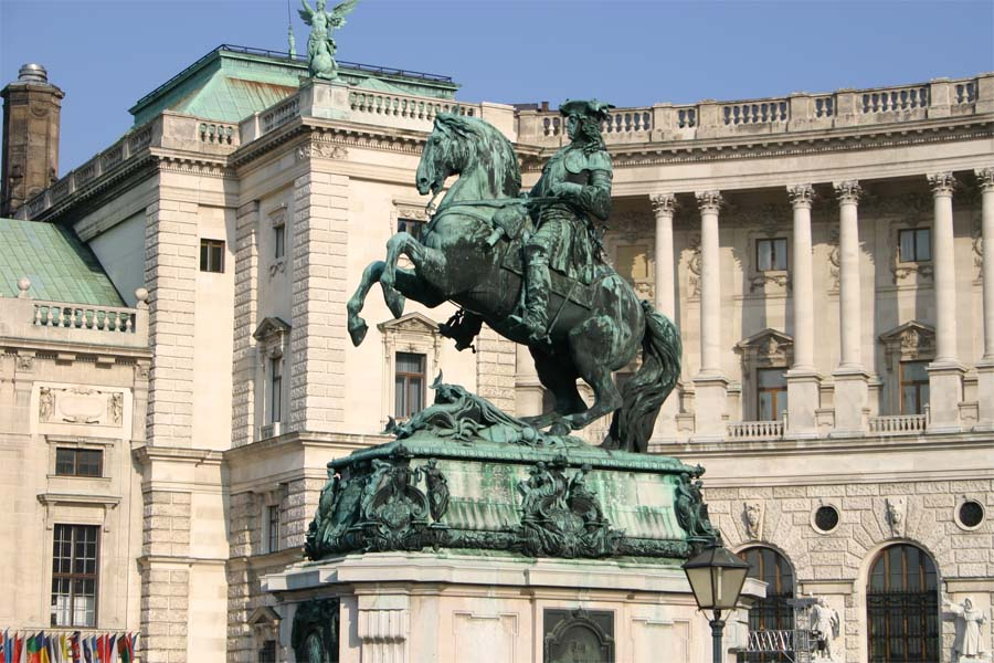 François-Eugène, Prince of Savoy-Carignan, known as Prinz Eugen von Savoyen in German (October 16, 1663 – April 24, 1736) was one of the most brilliant generals in the history of the Habsburg Empire. Here is the monument to him in Heldenplatz, Vienna, by Anton Dominik Fernkorn, 1865.